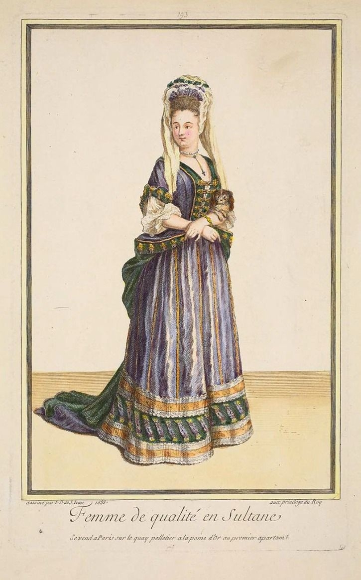 Manteau, ca. 1685-90 Contemporary fashion plate by Bonnard